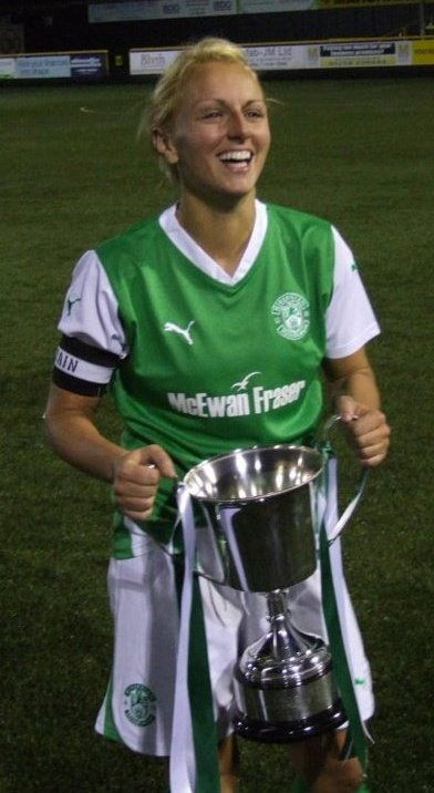 Rhonda Jones with Hibernian Ladies Football Club. Scottish Cup Champions 2010